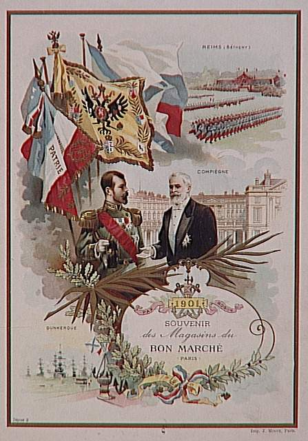 A popular design distributed by a firm (Great Stores of Le Bon Marché) during and after the visit Nicolas II to France, to help French people to understand the reason of the visit (l'alliance franco-russe)